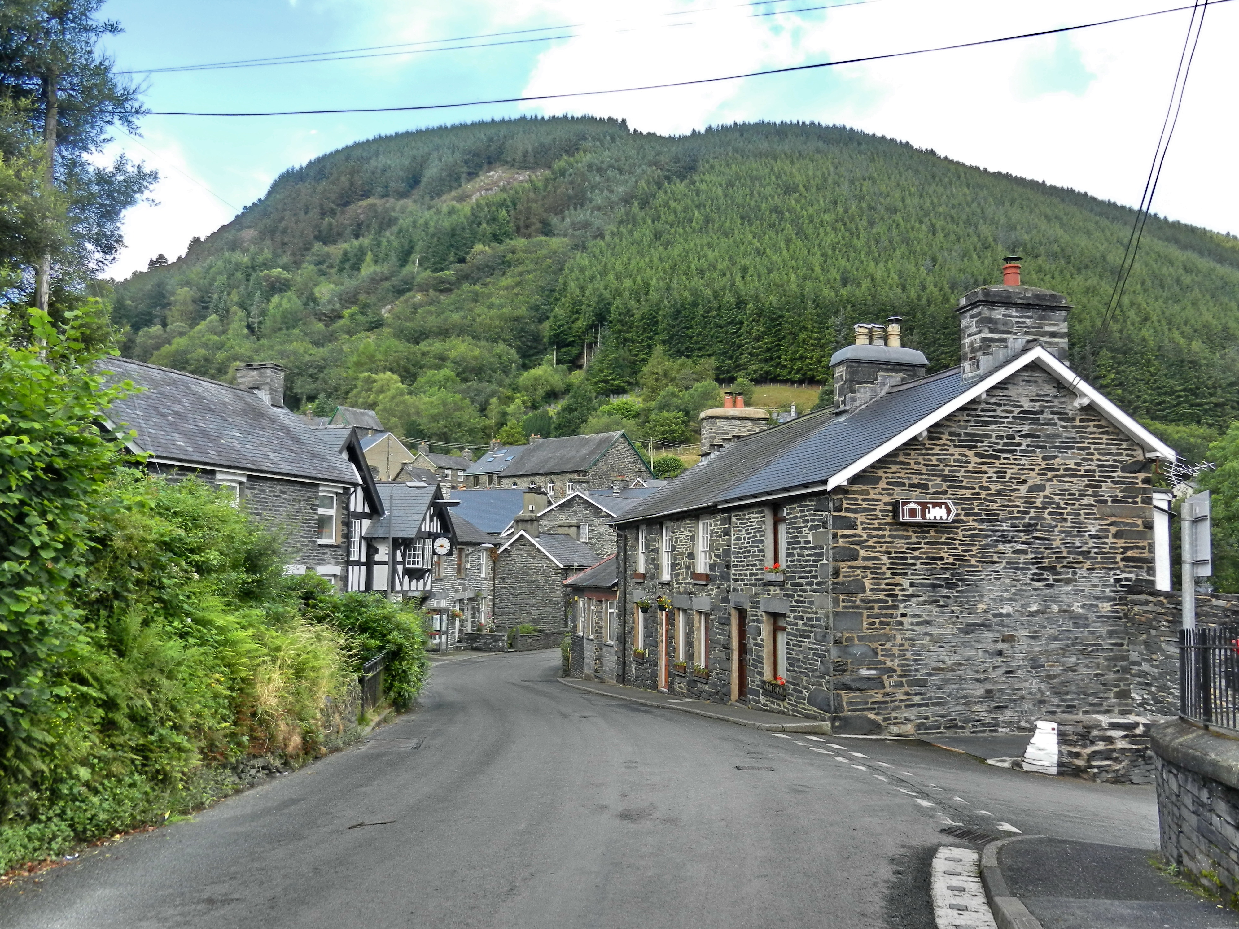 Corris